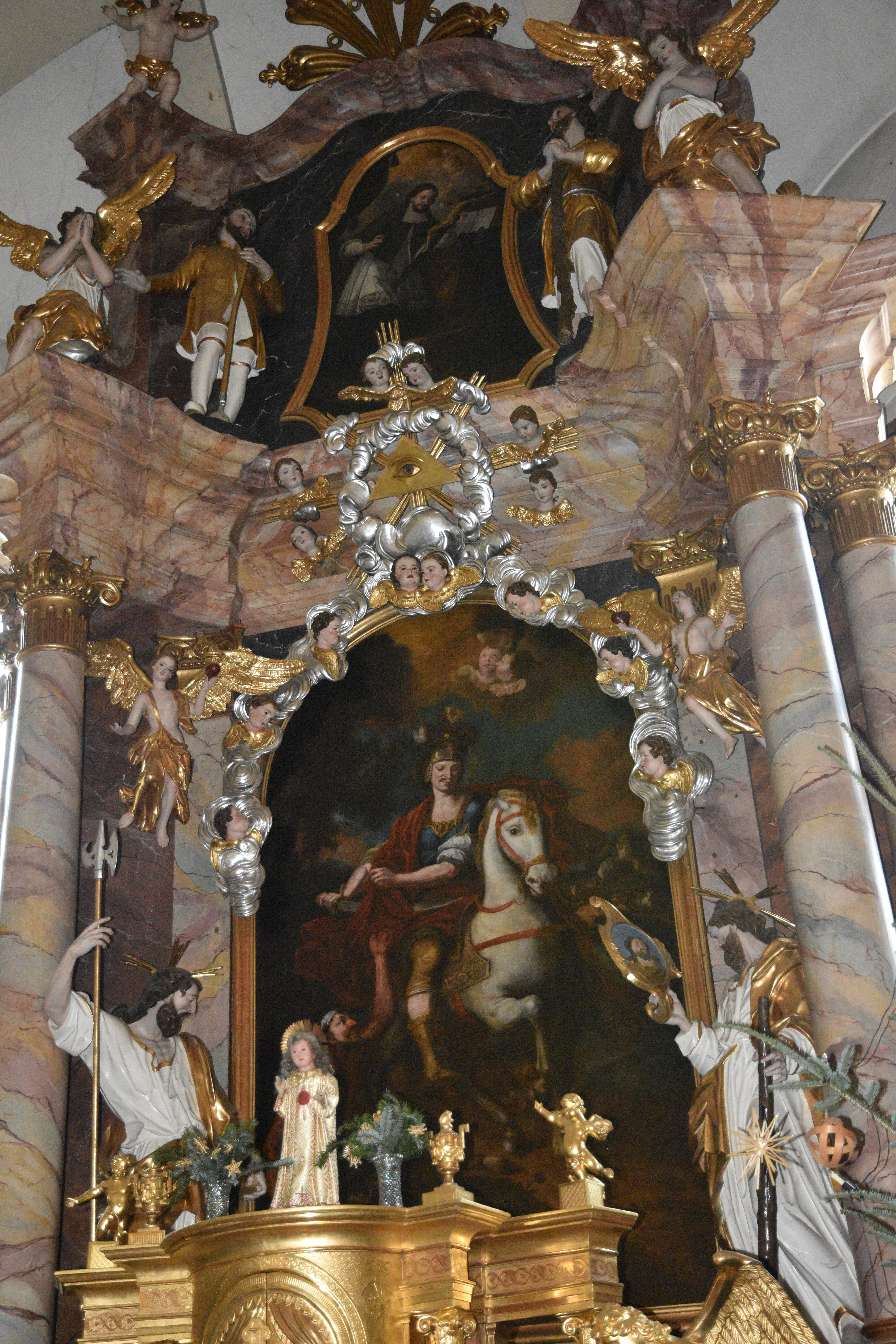 Church hl. Martin, Sankt Martin im Sulmtal Interior